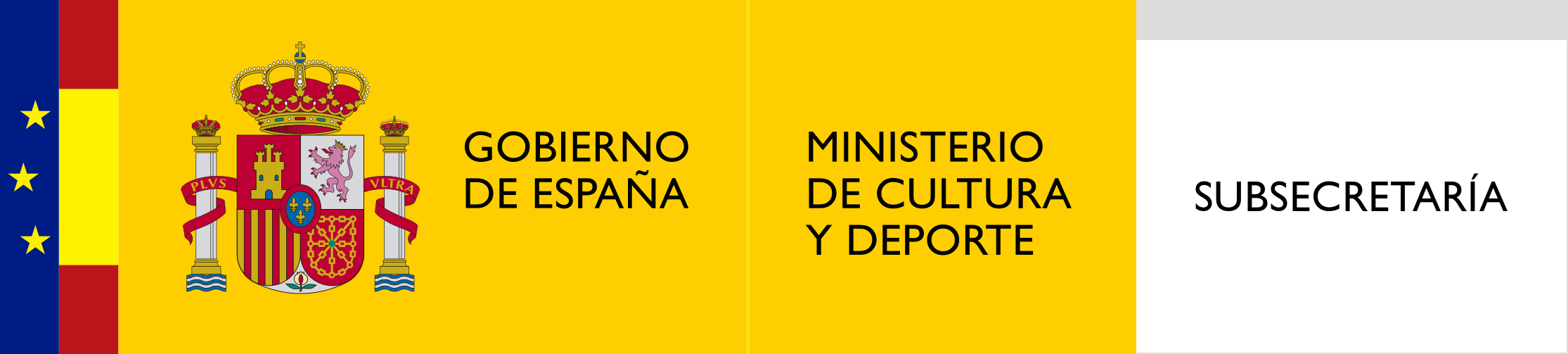 Logo of the Undersecretariat of Culture and Sport of Spain